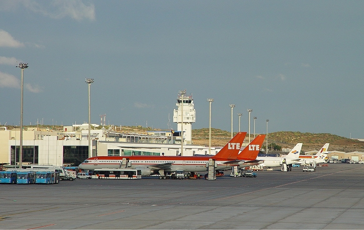 Tenerife Sur Airport